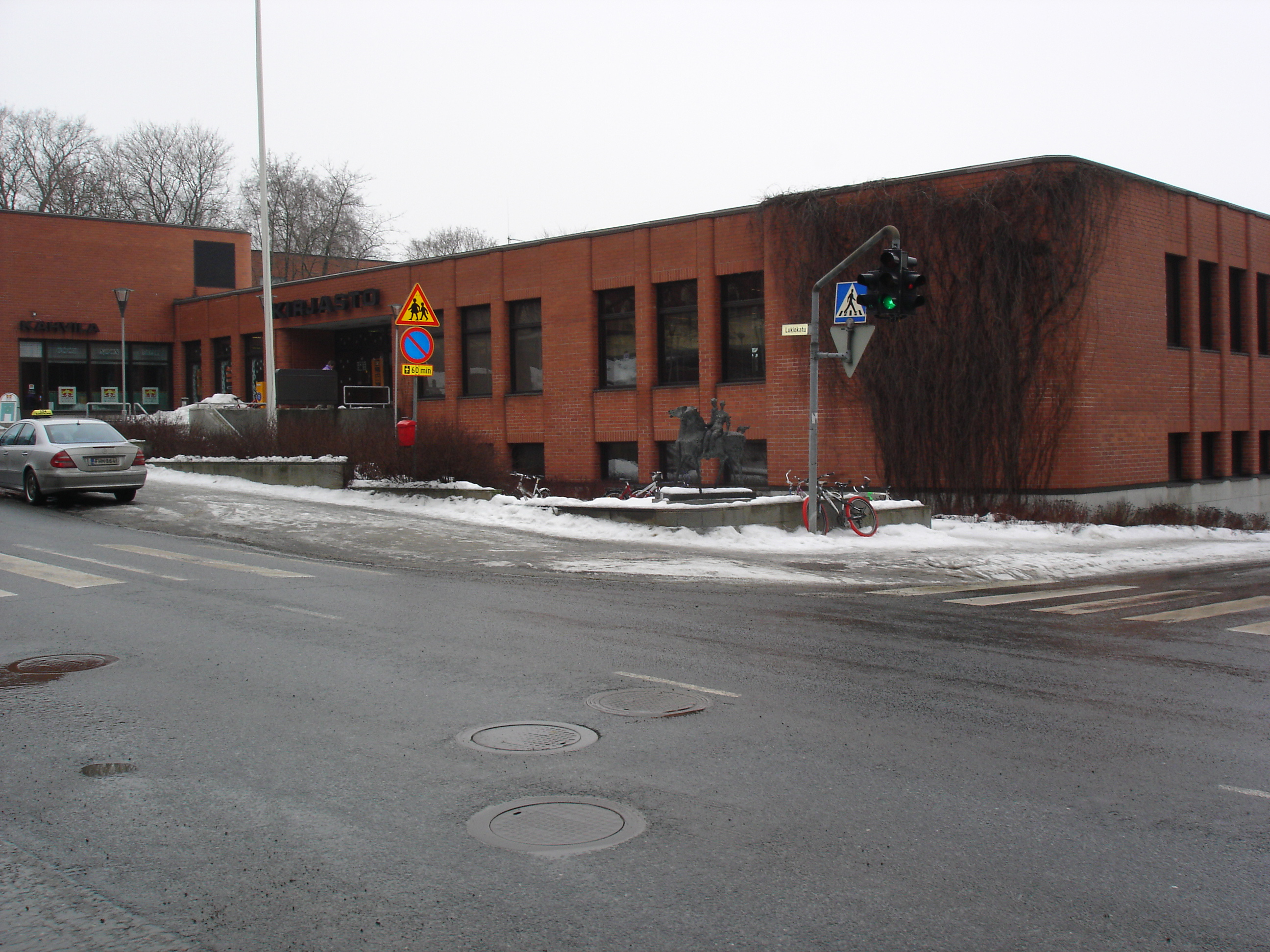 Hämeenlinna City Library in Hämeenlinna, Finland